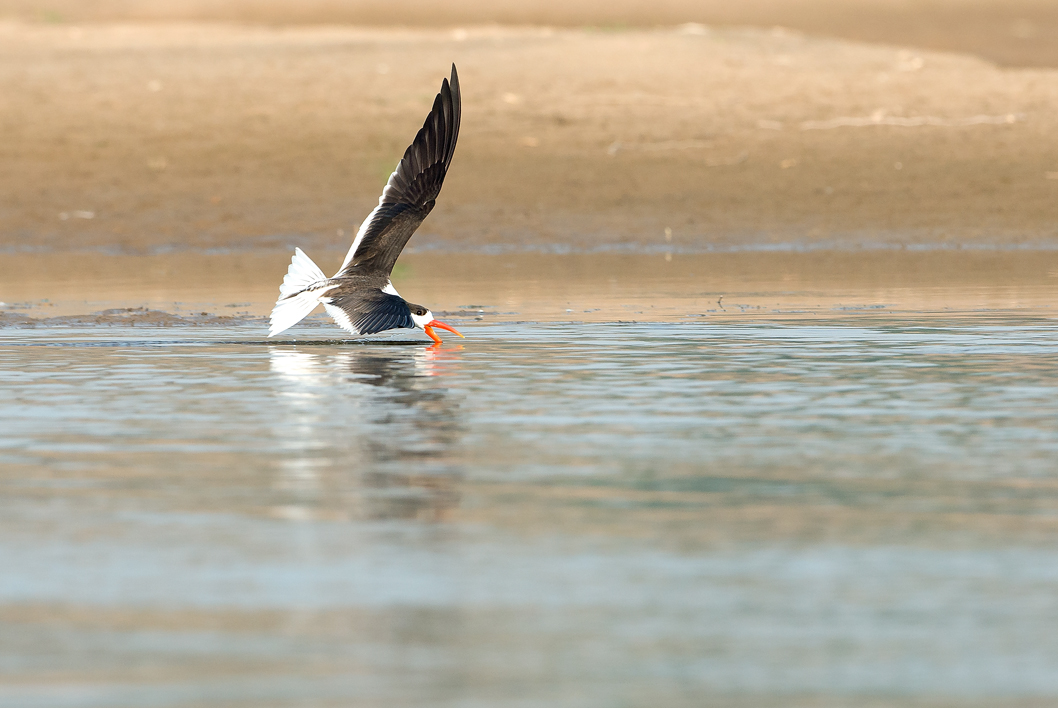 Indian Skimmer (Rynchops albicollis) seen skimming for food in River Chambal near Dholpur, Rajasthan. National Chambal Sanctuary along River Chambal in Rajasthan, Uttar Pradesh and Madhya Pradesh continues to be one of the places easy to site this interesting bird. The artificial plastic looking bill with longer lower mandible is used to skim the waters as the bird flies low with open mandibles.